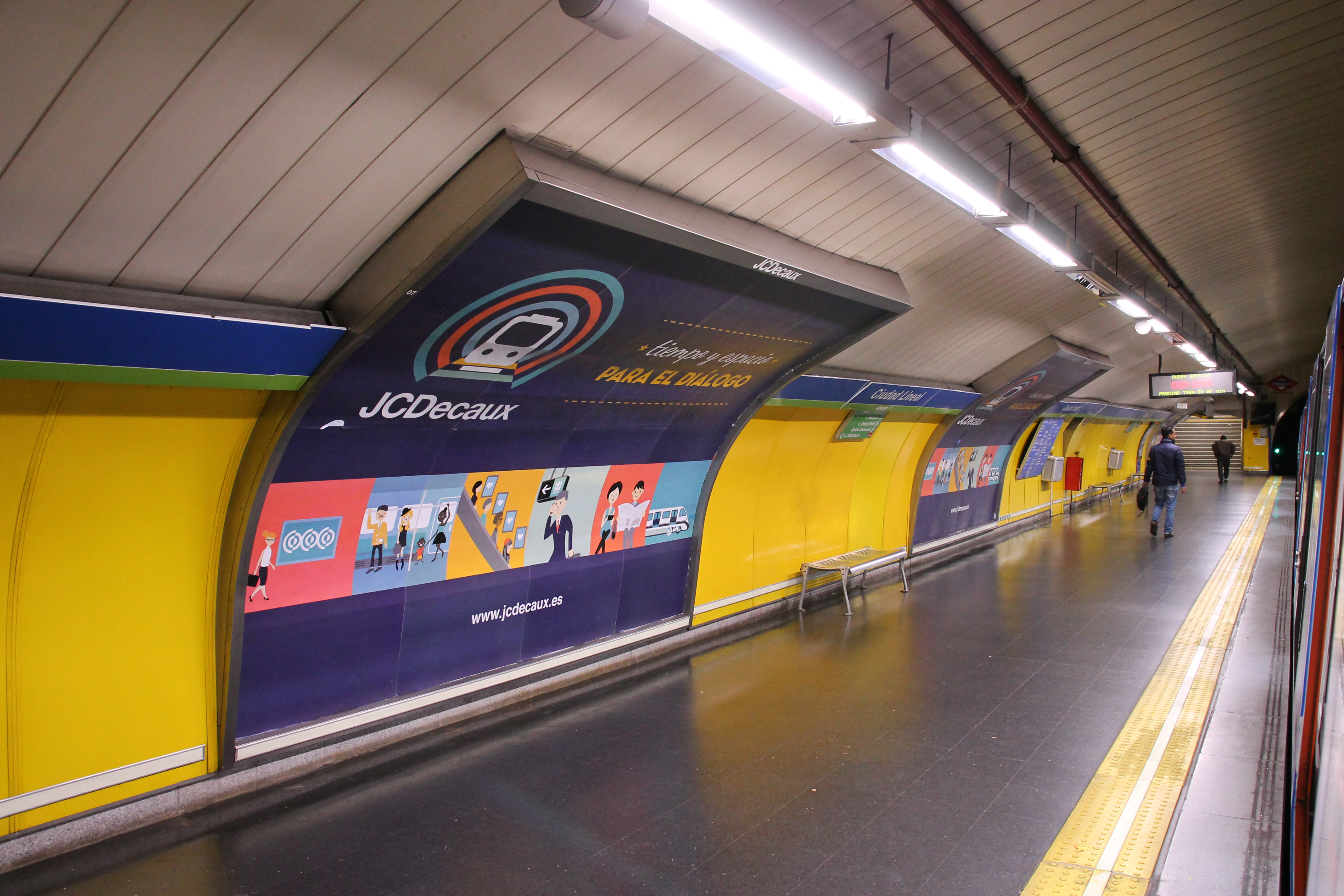 Estación de Ciudad Lineal